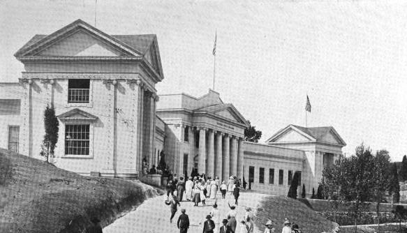 The Southern States Building at the National Conservation Exposition, held at Chilhowee Park in Knoxville, Tennessee, USA, in 1913. This was one of the first major works by architect Charles I. Barber.